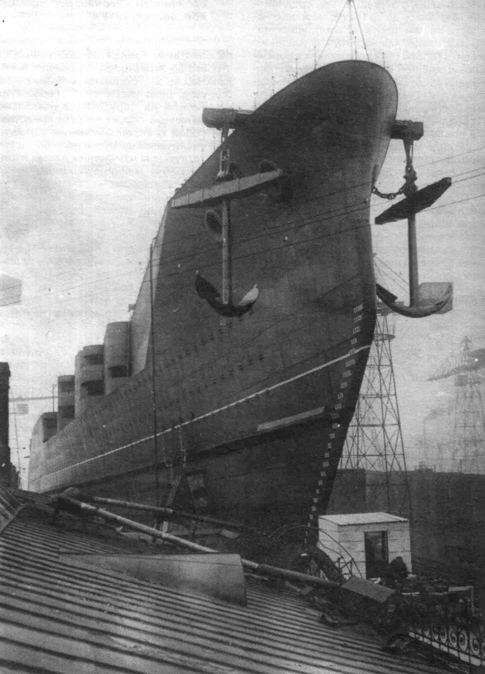 Battlecruiser Navarin at New Admiralty in Petrograd.